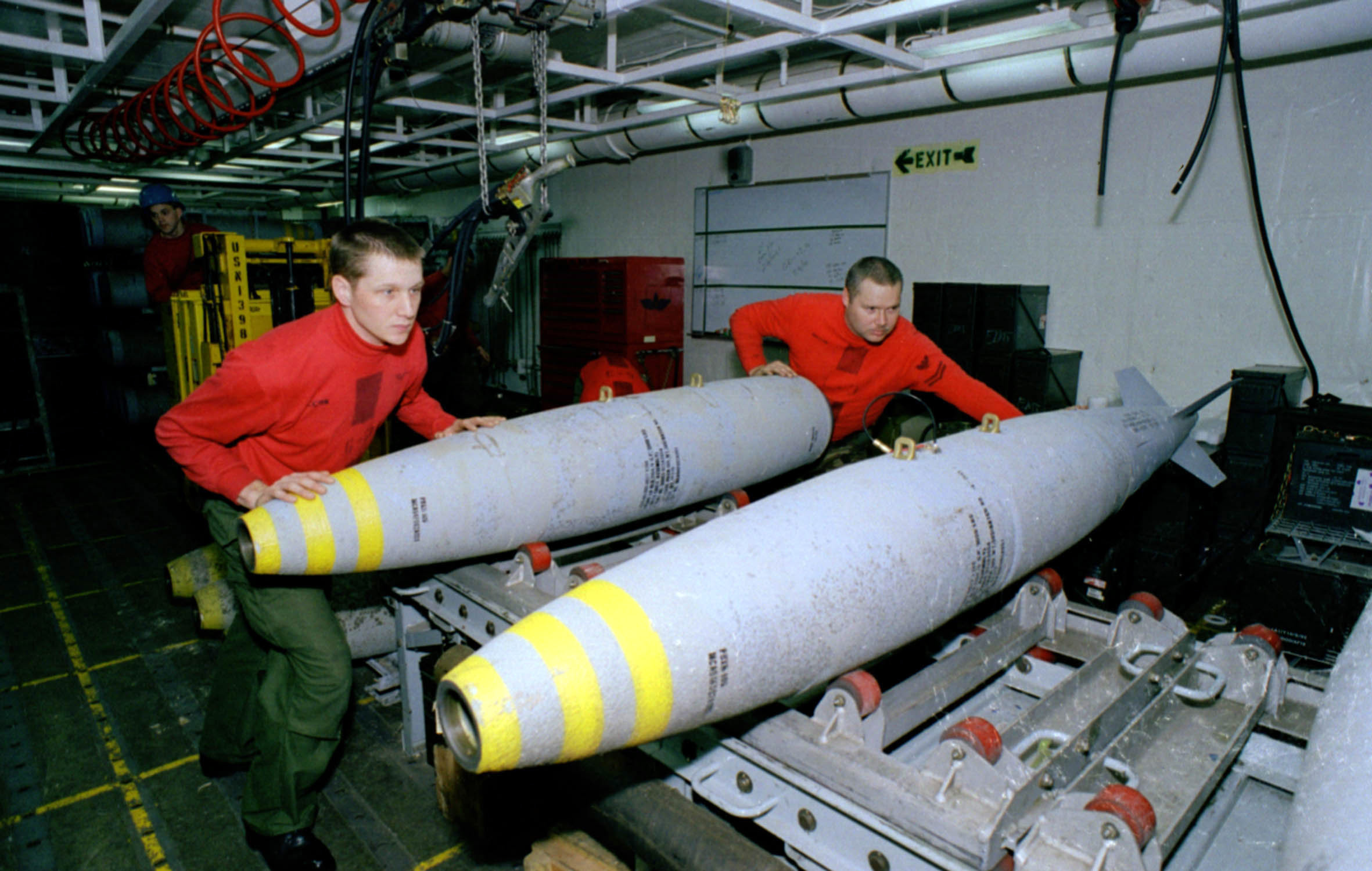 At sea aboard USS Theodore Roosevelt (CVN 71) May 25, 1999 -- Aviation Ordnanceman 2nd Class David Meers and Aviation Ordnanceman 2nd Class Jeffrey Drawghn transport a Mark-82, 500 pound bomb down the "assembly line" where it will be assembled for strikes in support of the NATO led Operation Allied Force over Kosovo. U.S. Navy photo by Photographer’s Mate 2nd Class Steven Harbour. (RELEASED)